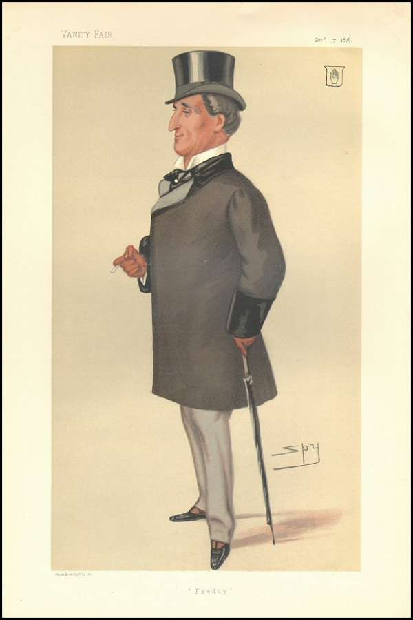 Statesmen No.288: Caricature of Sir FJW Johnstone Bt. Caption reads: "Freddy"